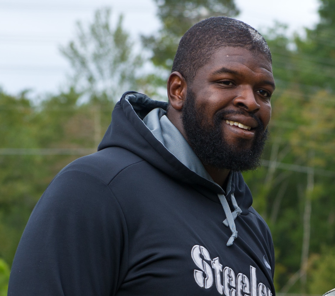 NFL player Clifton Geathers poses for photos with U.S. Army Soldiers assigned to the 1053rd Transportation Company, South Carolina Army National Guard, as a thank you for helping them retrieve family belongings from their flooded home in Brown's Ferry near Georgetown, South Carolina, Oct. 10, 2015. The South Carolina National Guard has been activated to support state and county emergency management agencies and local first responders as historic flooding impacts counties statewide. Currently, more than 3,000 South Carolina National Guard members have been activated in response to the floods. (U.S. Air National Guard photo by Tech. Sgt. Jorge Intriago/Released)